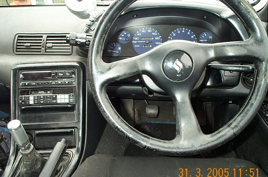 Nissan Skyline R32 - Interior